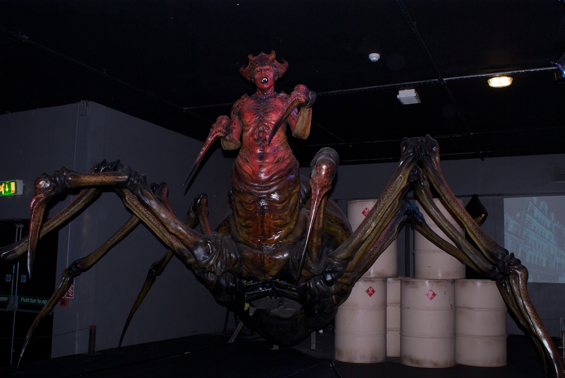 Racnoss Doctor Who Experience